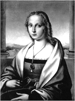 RAFFAELLO Sanzio Lady with a Unicorn Oil on wood, 65 x 51 cm Galleria Borghese, Rome